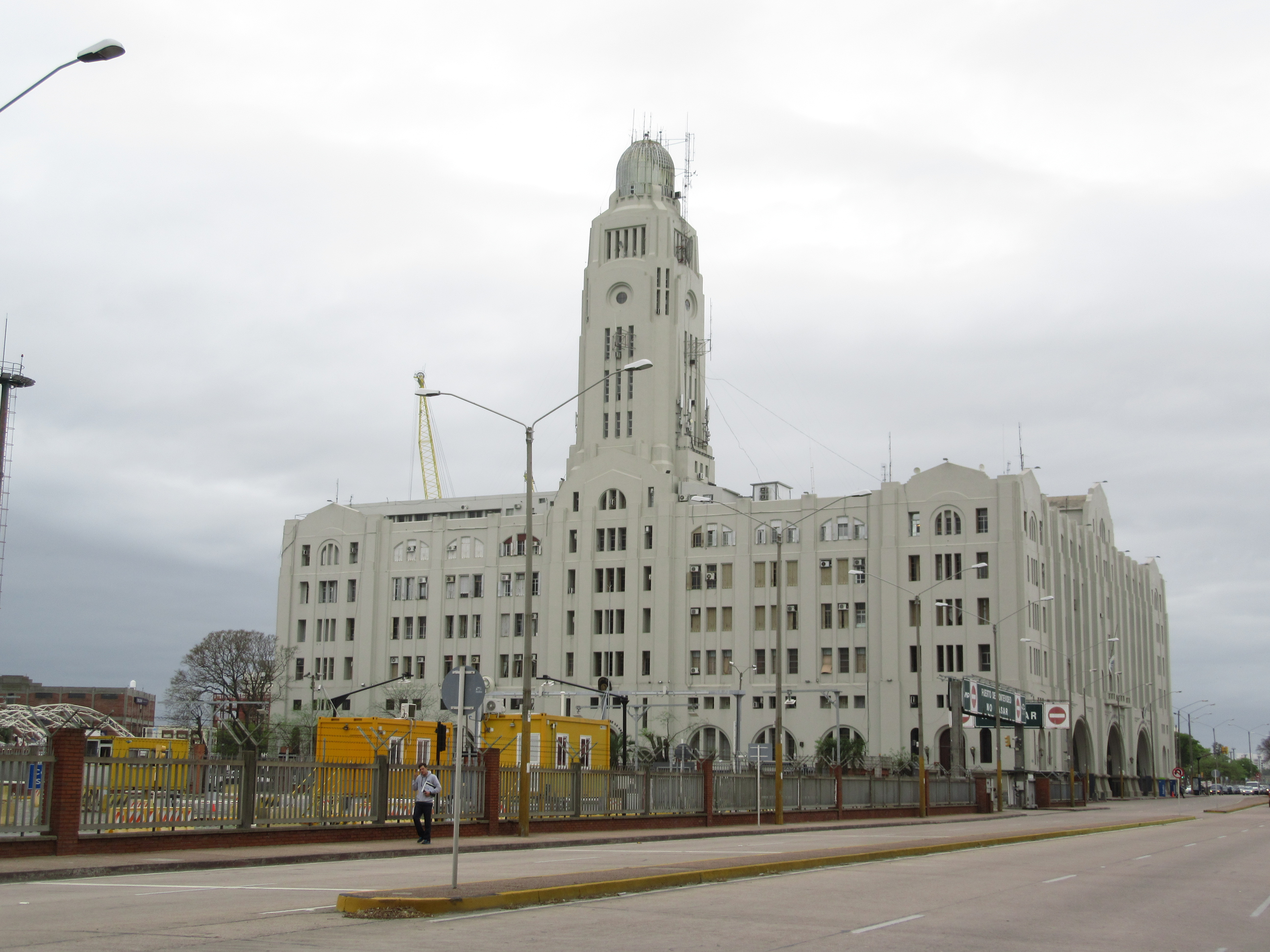 Montevideo